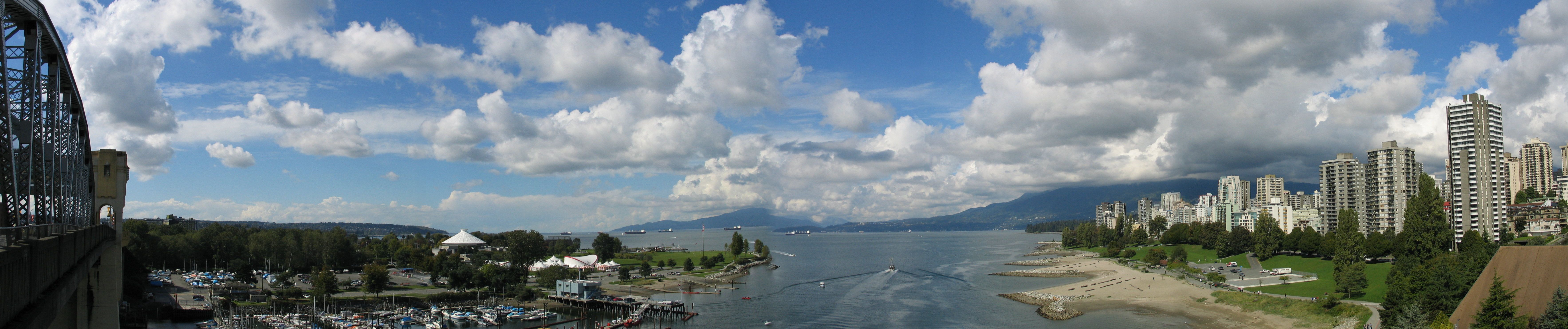 English Bay, Vancouver